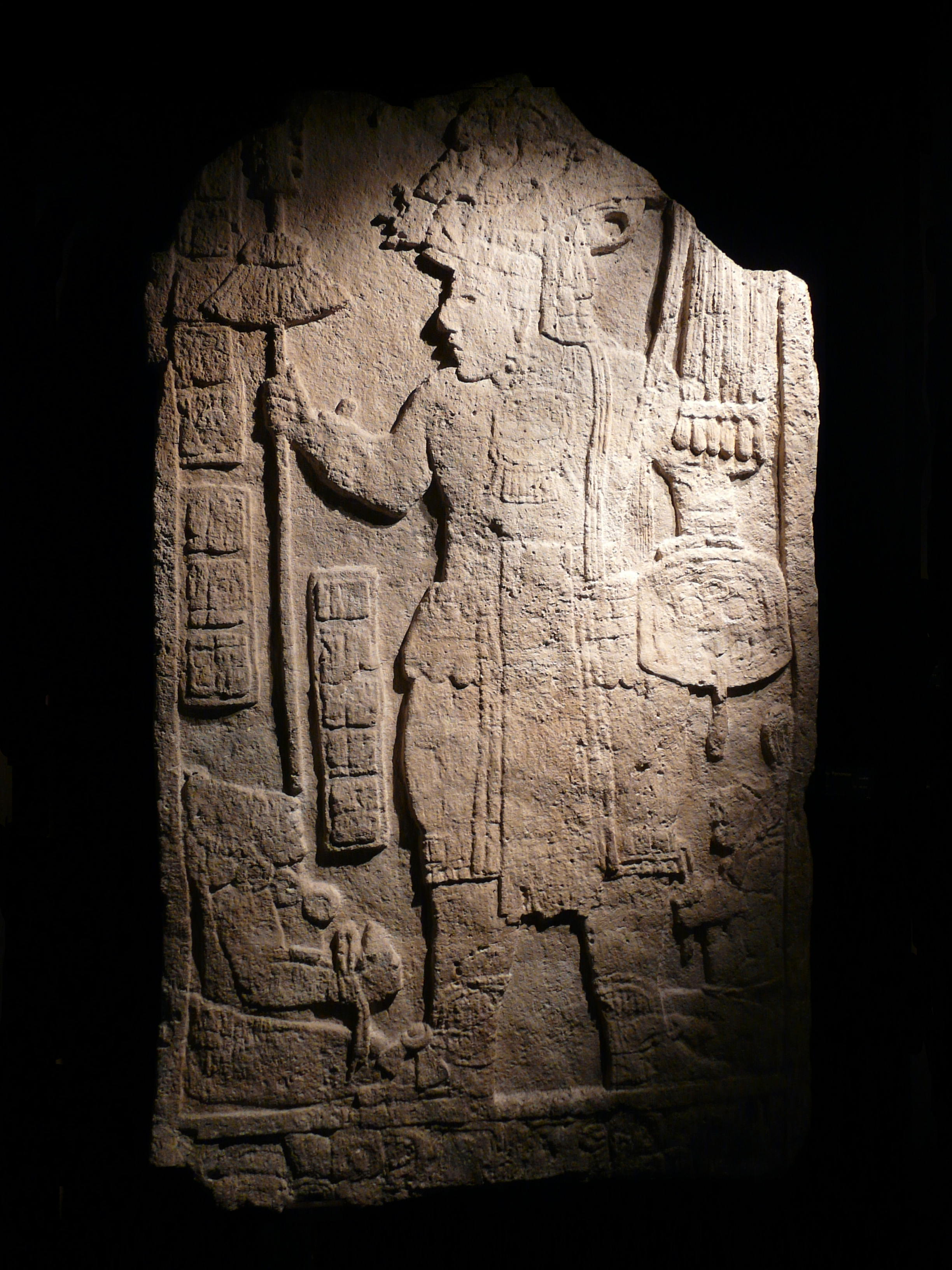 Maya stelae from the Museo Chileno de Arte Precolombino in Santiago, Chile. The statue is dated between 300-900 AD. It was taken from one of the plazas in Aguateca. It commemorates a victory of the city's ruler. The Jaguar god is depicted on the warrior's shield, and two prisoners have their feet bound.